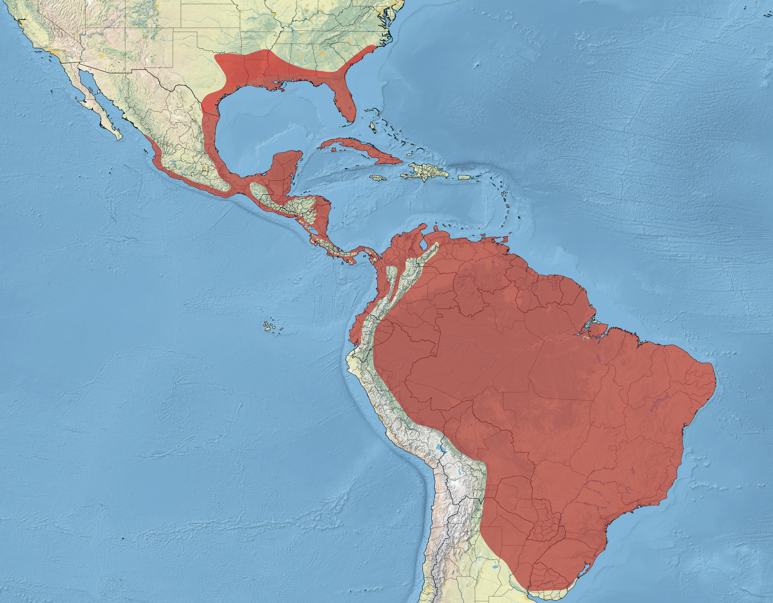 The approximate distribution of the Anhinga, according to the IUCN Red List. Brighter red indicates breeding only range.